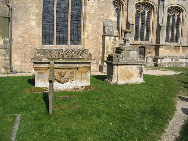 John Meade Falkner's tomb, Burford, near to Burford, Oxfordshire, Great Britain. Burford churchyard is known for its "bale" tombs with tops representing bales of wool/cloth from the time when Burford was an important and thriving wool town. This bale tomb however is from 1933 and houses the remains of John Meade Falkner a major and well remembered benefactor of the church.